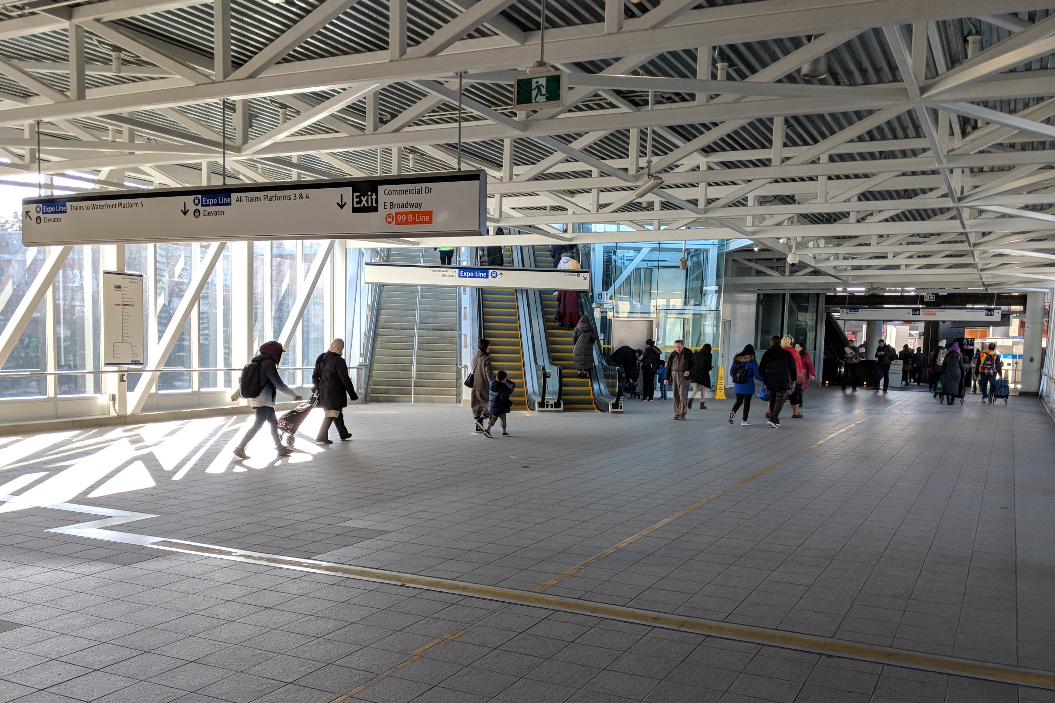 Commercial-Broadway's concourse that links the two rail lines.